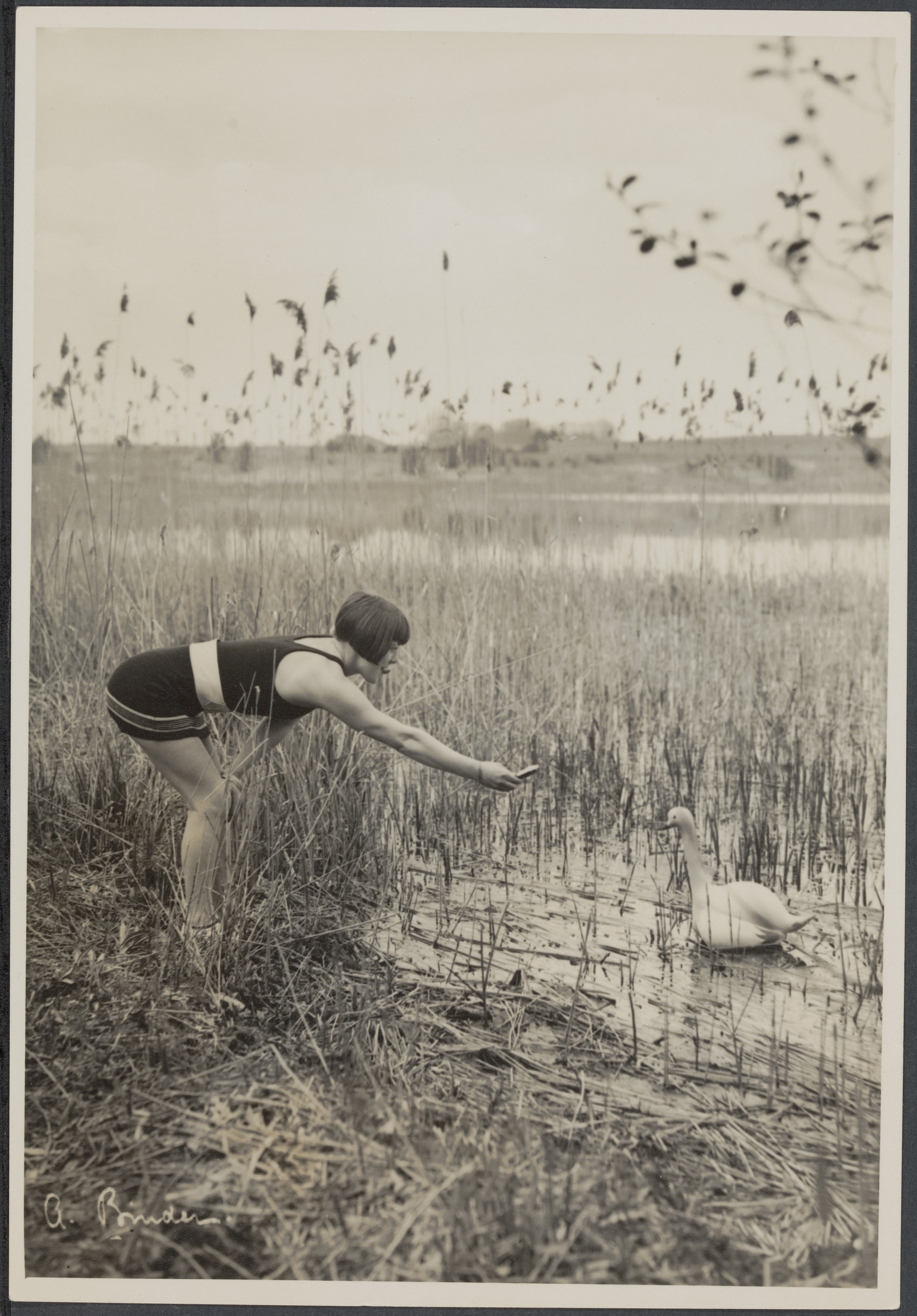 Truus van Aalten (Dutch film actress, 1910-1999) meets a fake swan. 19 x 13 cm.